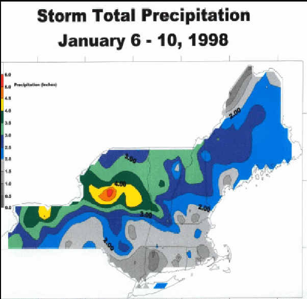 Storm Total Precipitation shows a large area of more than 4 inches and upwards of 5 inches of rainfall in west central New York. This graphic does not account for precipitation on January 4-5th in northern New York and Vermont. (Source : NOAA's Northeast River Forecast Center)